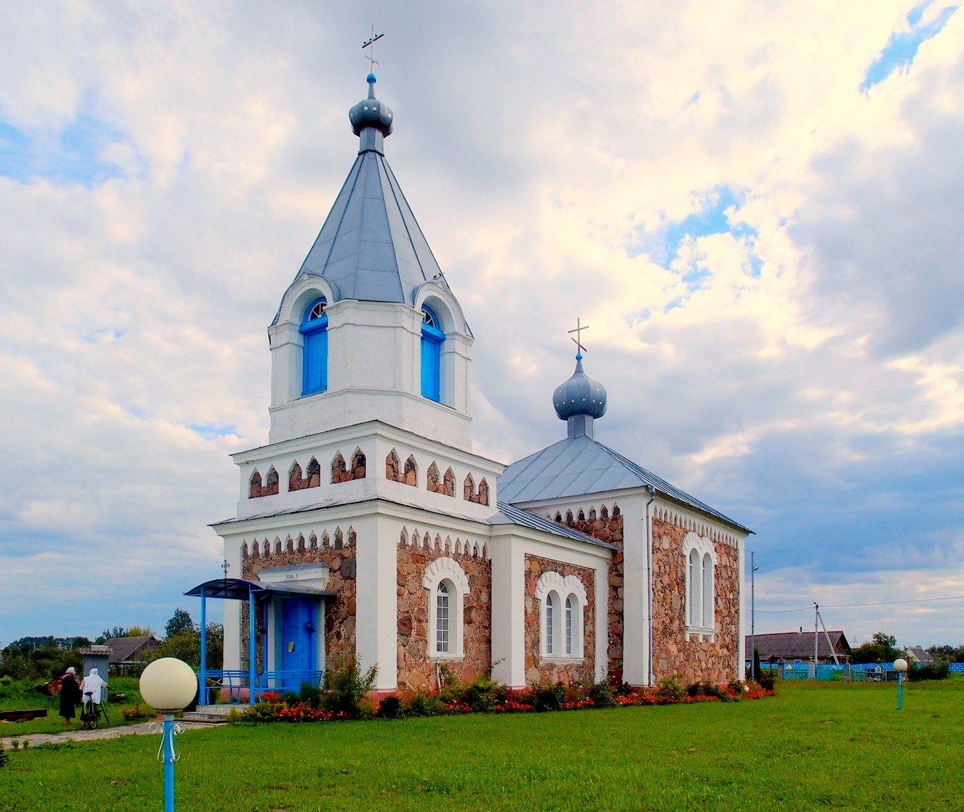 Orthodox church in Palačany